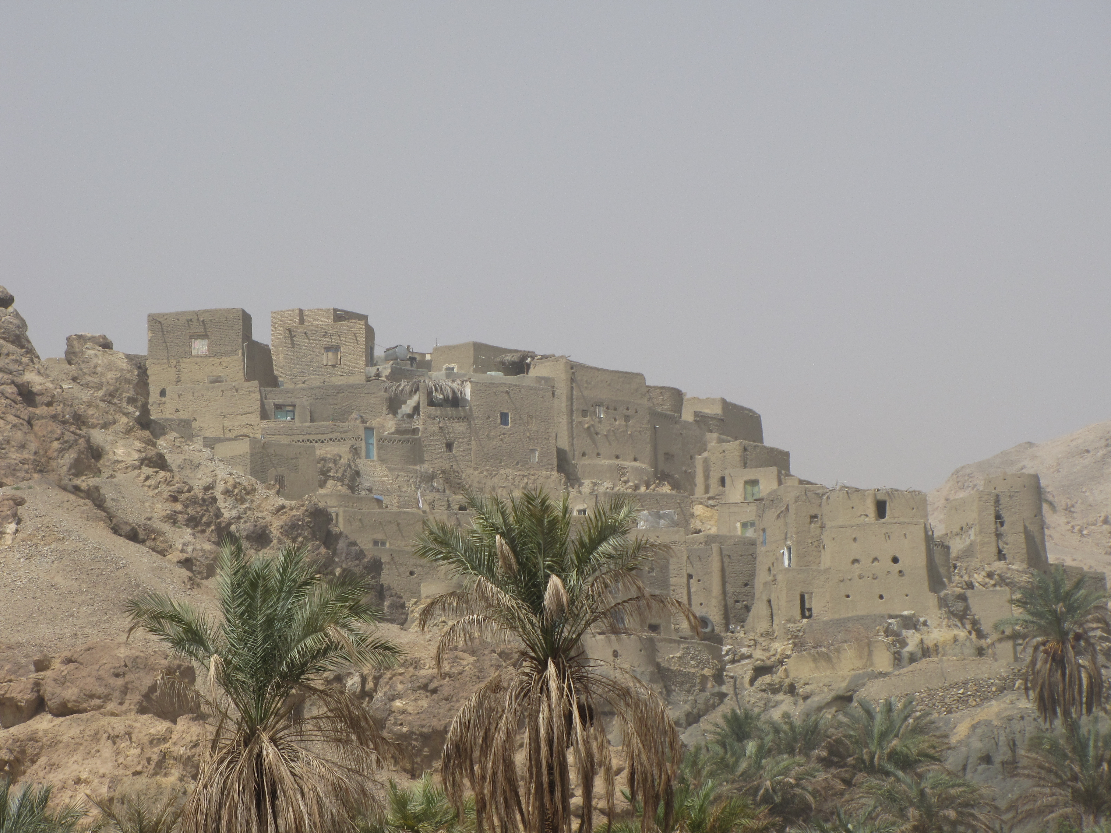 An overview of Nayband village in Tabas - Yaz Province - Iran